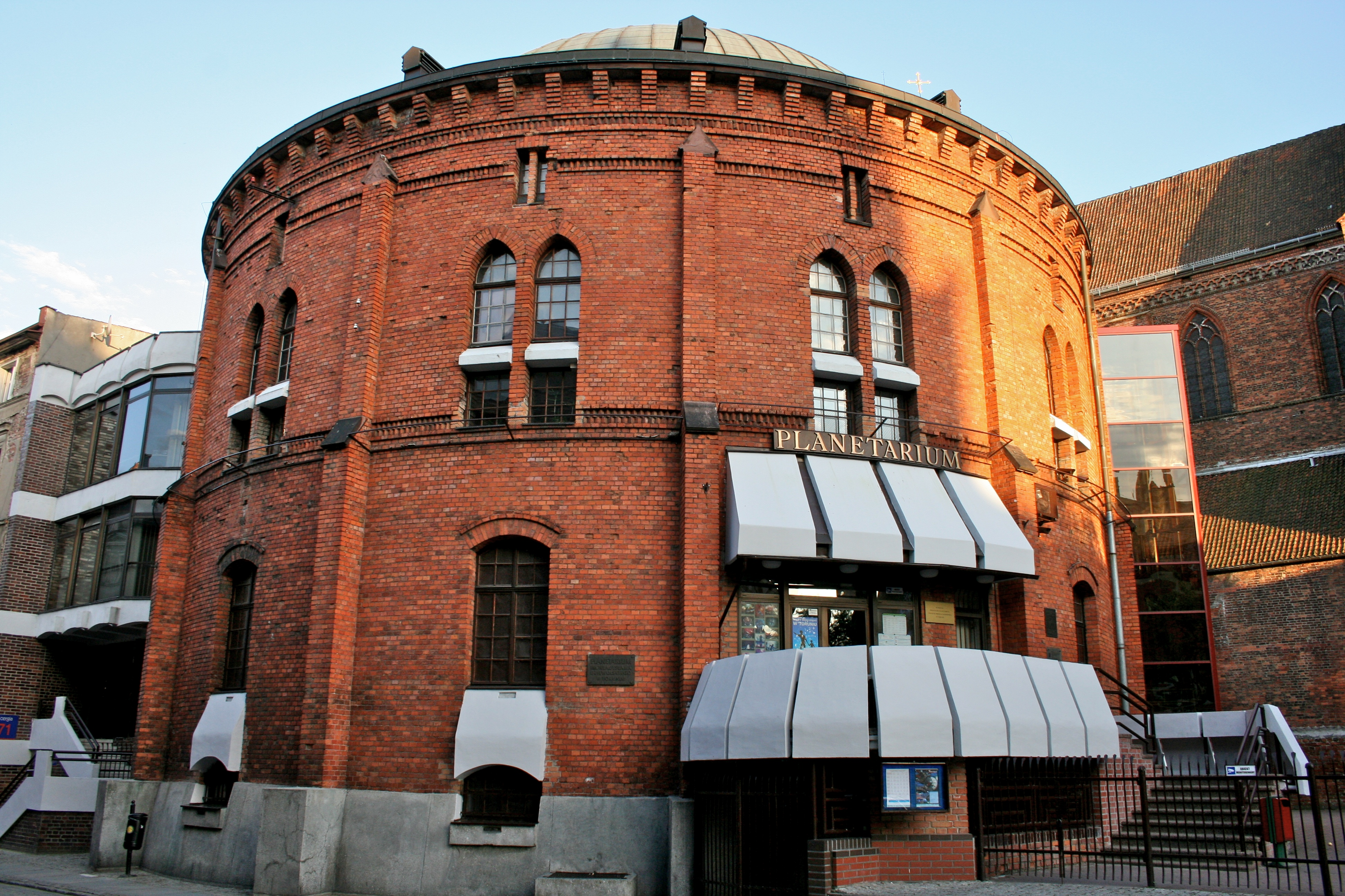 The Planetarium (former gas tank) in Torun, Poland